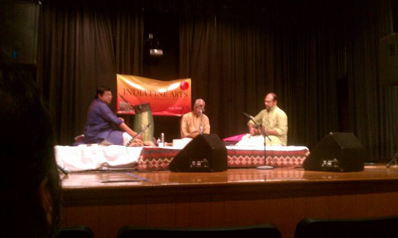 Sangeetha Kalanidhi Padmabhushan T V Sankaranarayanan, famous Carnatic vocal singer, in a concert in Austin, TX, USA to commemorate the birth centenary of his uncle Sri Madurai Mani Iyer. He is accompanied by Sri Tiruvaroor Bhaktavatsalam on the Mridangam and Sri V V S Murari on the Violin. The concert was organized by India Fine Arts, Austin on September 15th 2012.